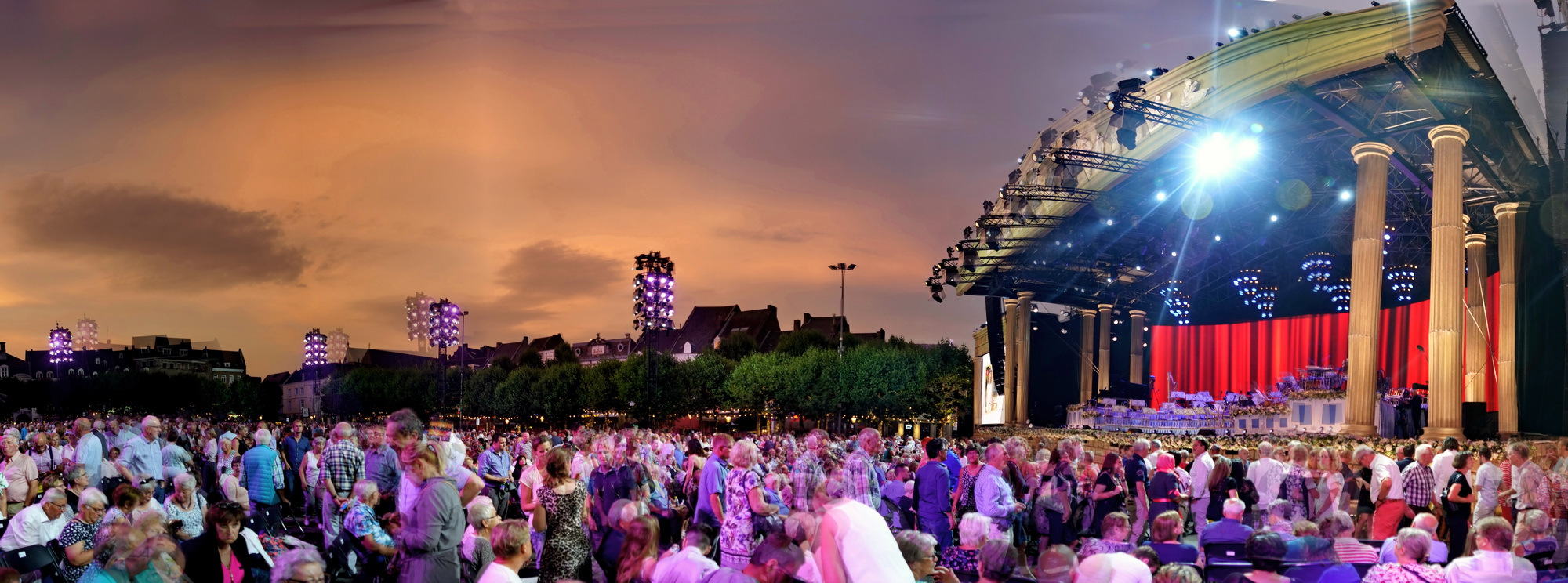 View of Vrijthof square in Maastricht, Netherlands, during one of the 2018 André Rieu concerts. Original file uploaded by bert knottenbeld to , cropped and edited by Kleon3.